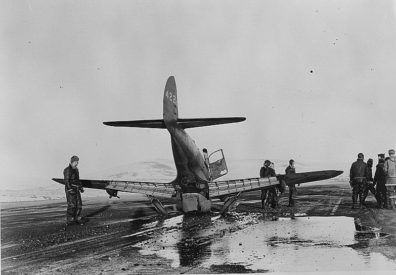 A crashed Bell P-39Q-5-BE Airacobra (USAAF s/n 42-2????) at Nome, Alaska (USA), in 1943-44. The red Soviet stars under the wings identify this as a lend-lease aircraft ferried to the USSR via Alaska. Note the ruptured belly tank.